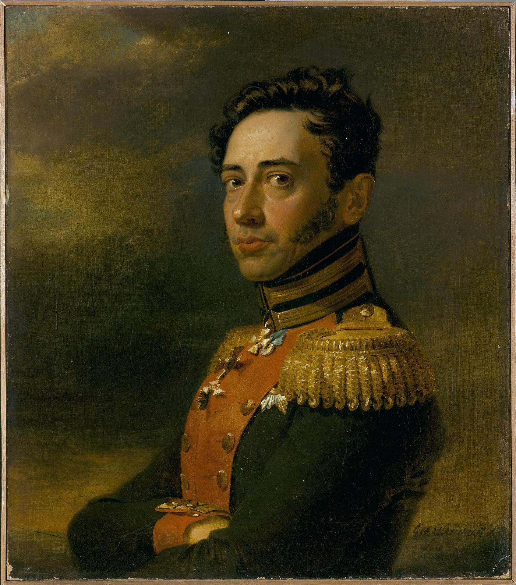 Portrait of Piotr Zheltukhin (1777-1829)